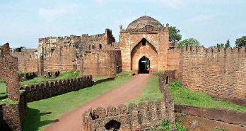 Bidar Fort, Bidar, Karnataka